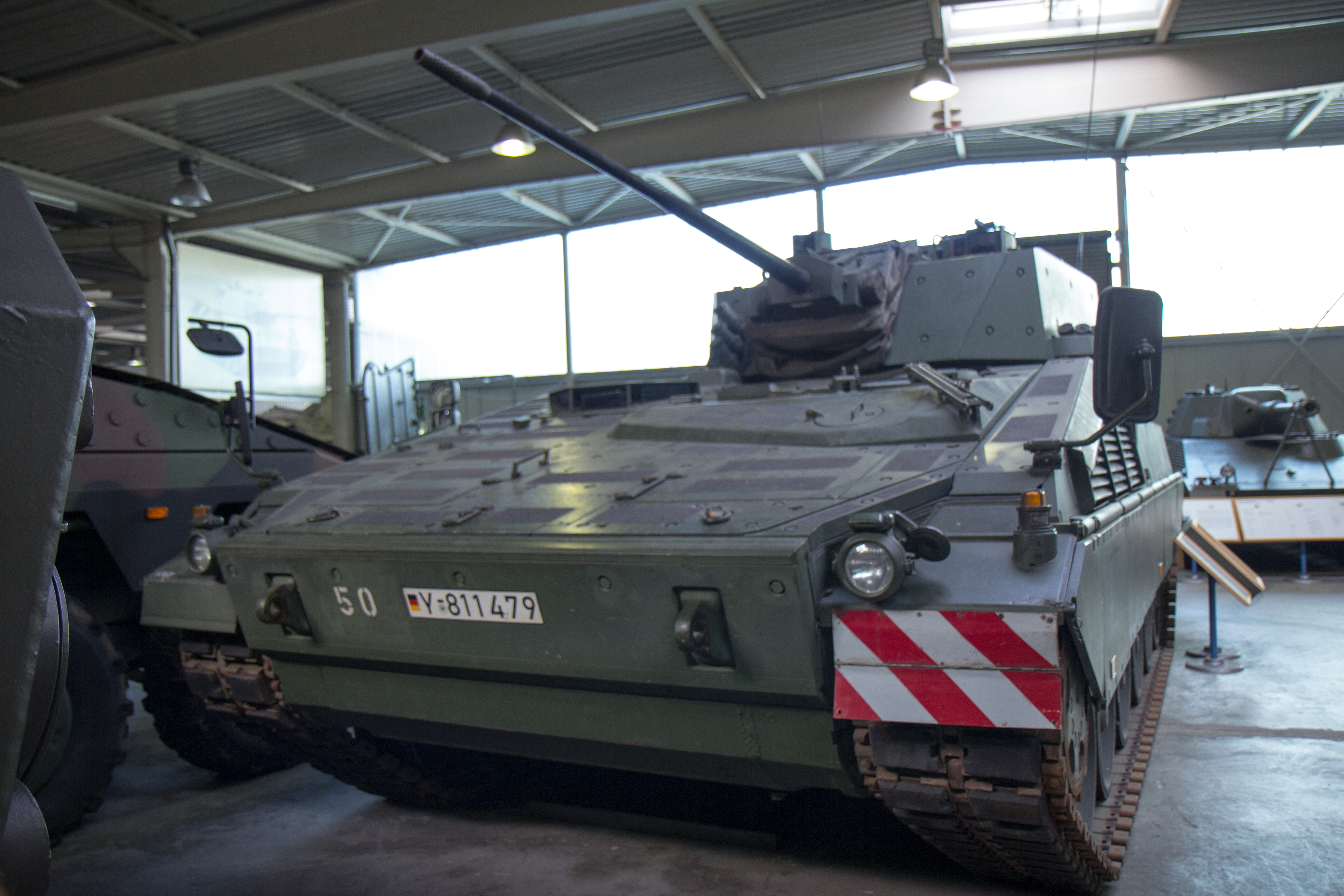 Prototyp Marder 2 IFV VT 001 from Krauss-Maffei Wegmann